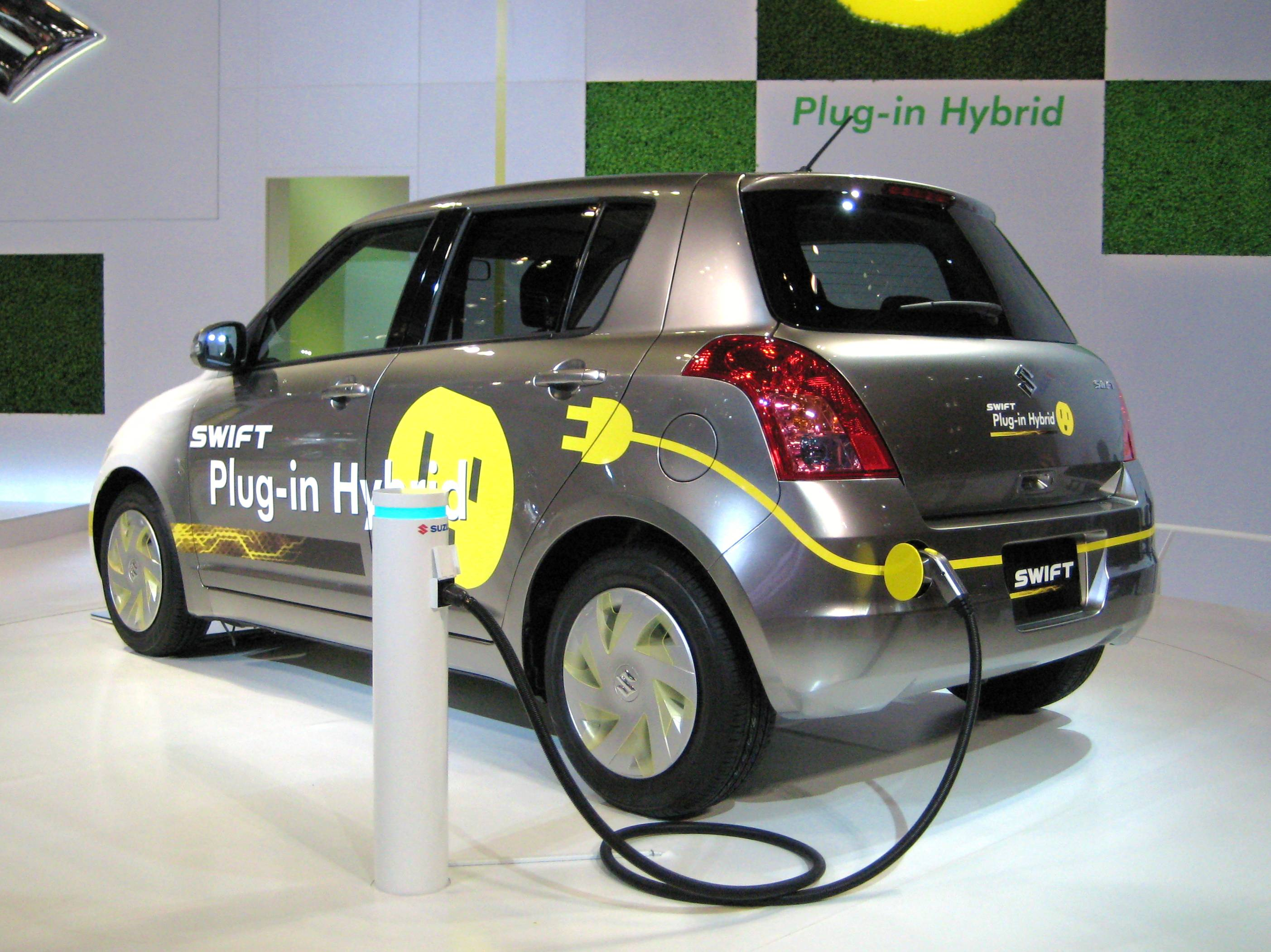 Suzuki Swift Plug-in Hybrid in Tokyo Motor Show 2009.